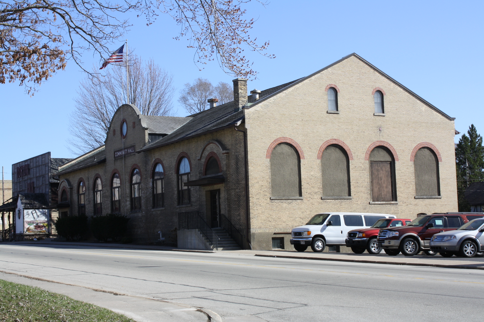 The Hortonville Community Hall in Hortonville, Wisconsin on Wisconsin Highway 15. It is listed on the National Register of Historic Places.